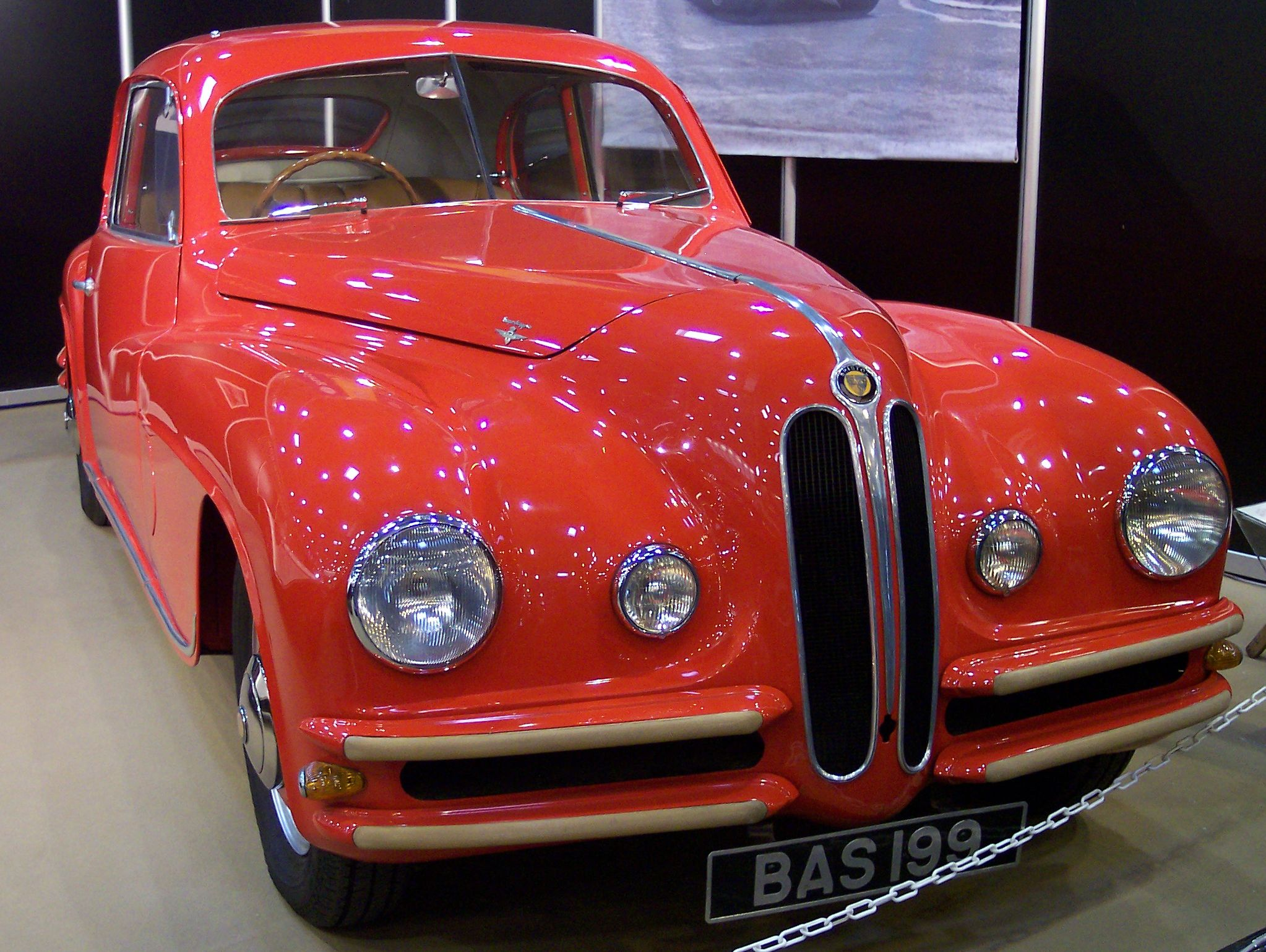 Bristol 401 2-door Saloon, coachwork by Touring Superleggera